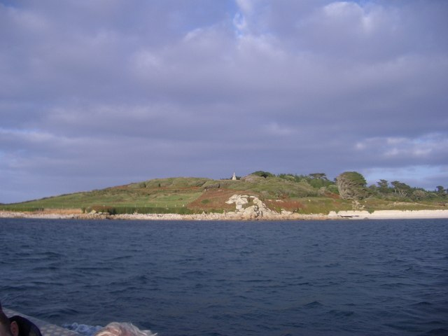 Appletree point, Tresco Appletree point and the monument on Tresco